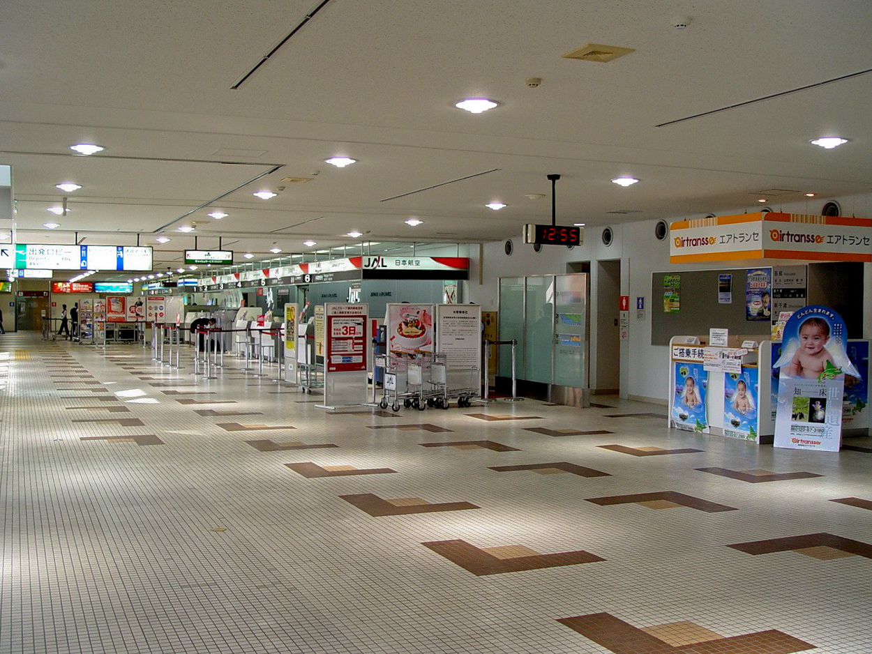 Airtransse counter; as of 2007 Airtransse no longer serves, all Airport.